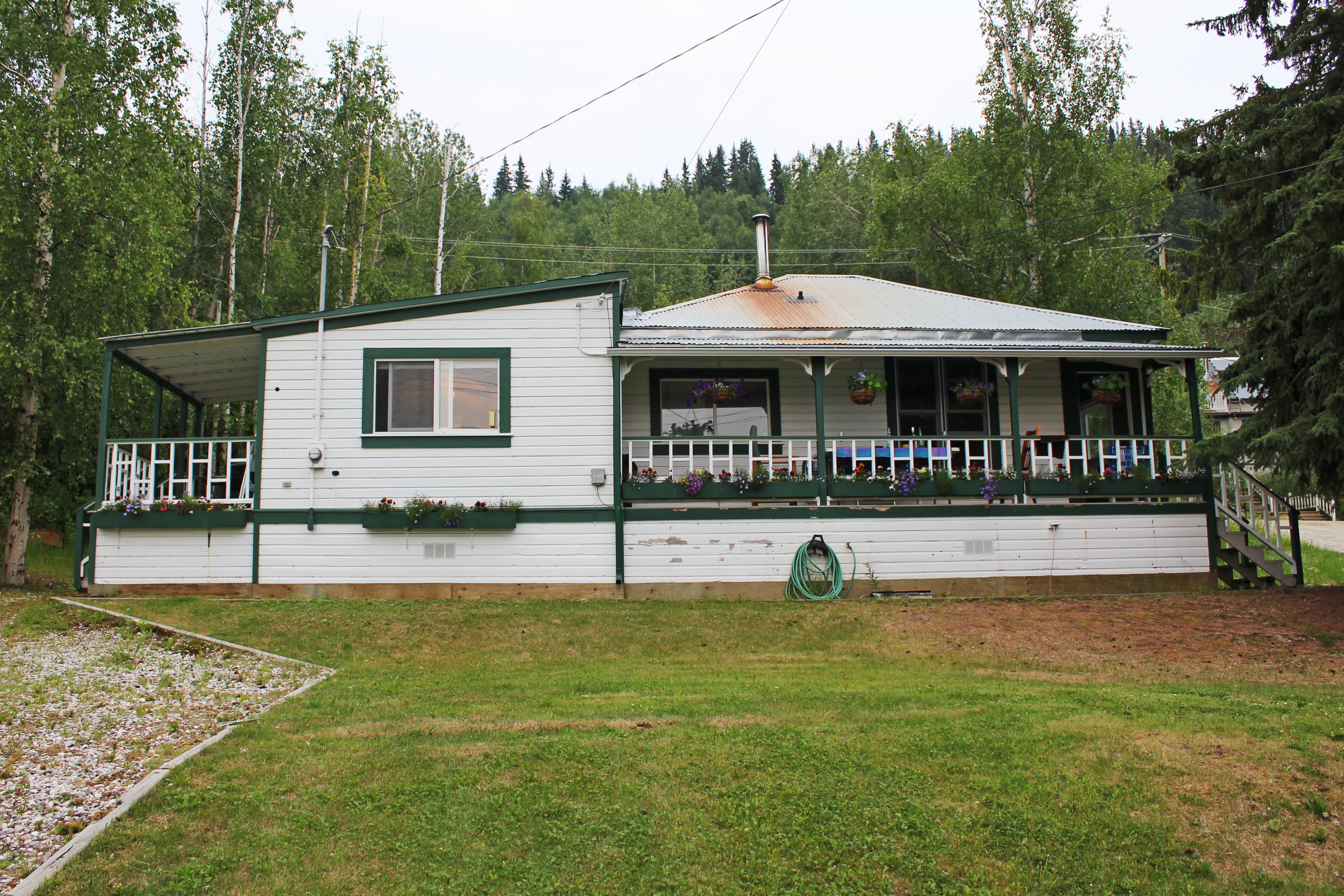 Childhood home of Pierre Berton in Dawson City, Yukon. Now a writers' residency for Canadian authors run by the Writers' Trust of Canada.